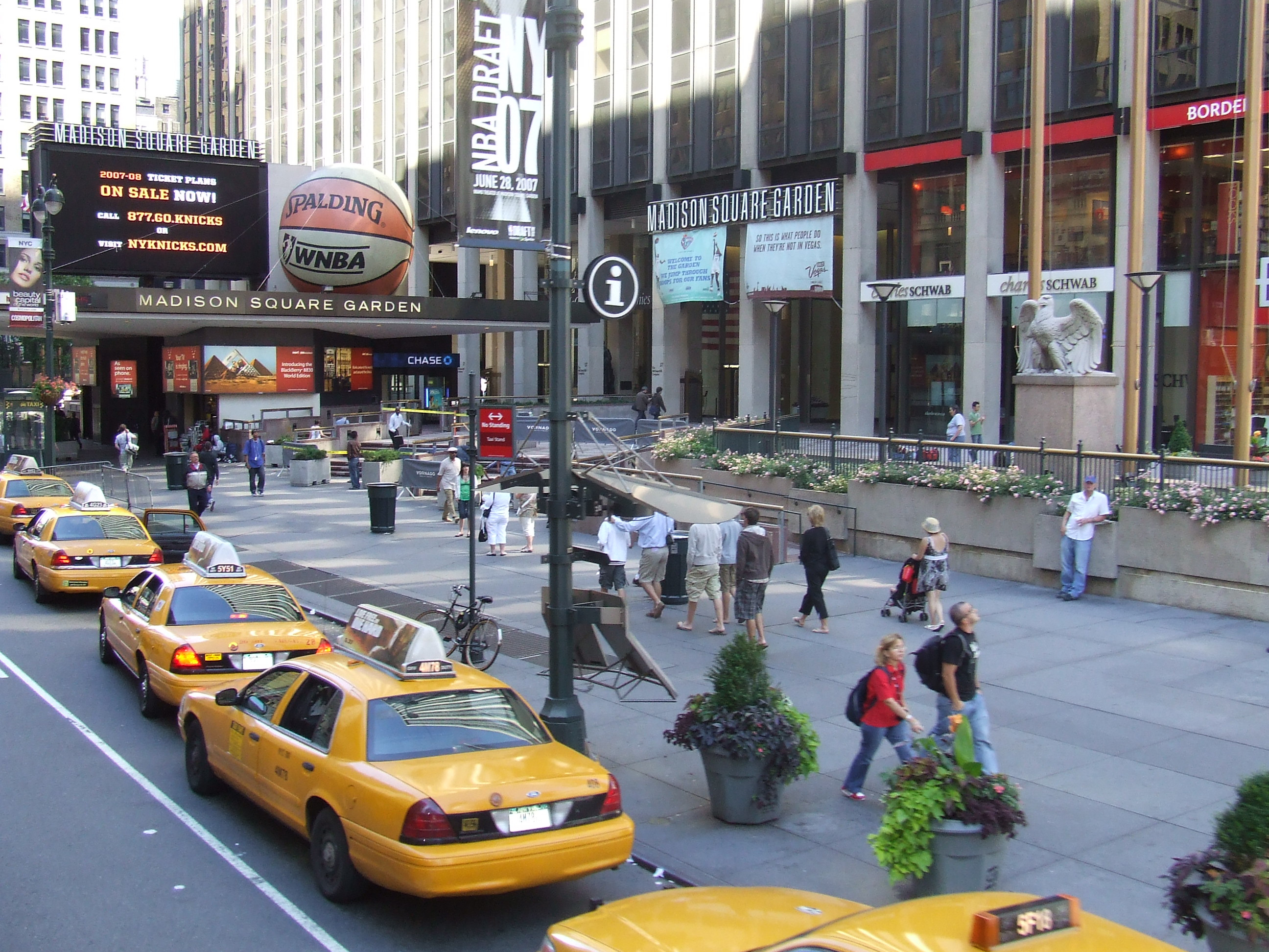 Looking southwest at 7th Avenue entrance, Madison Square garden